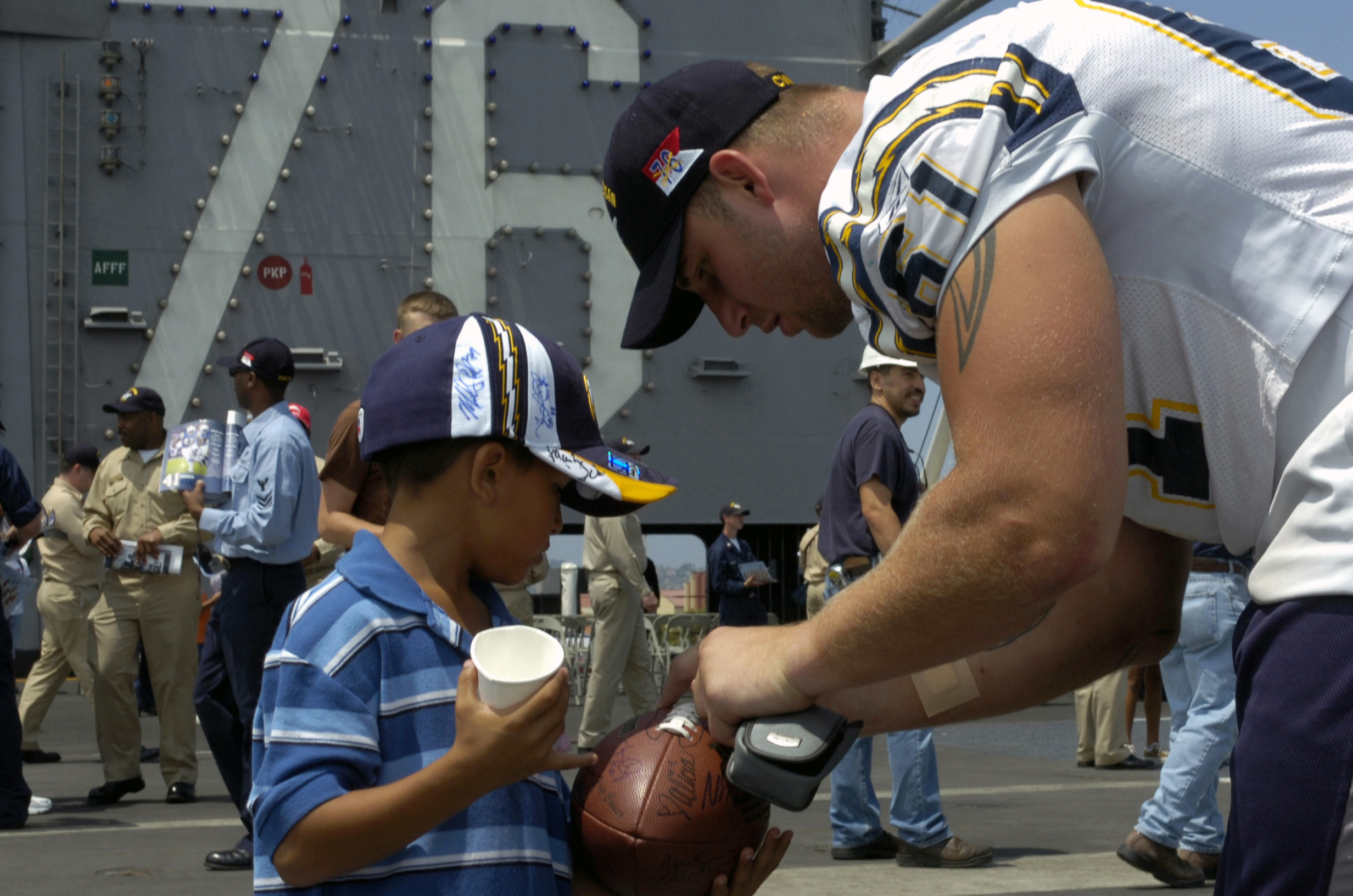 Center for the National Football League (NFL) San Diego Chargers, Nick Hardwick (61), signs an autograph on the flight deck of USS Ronald Reagan (CVN 76) for the son of Reagan Sailor.